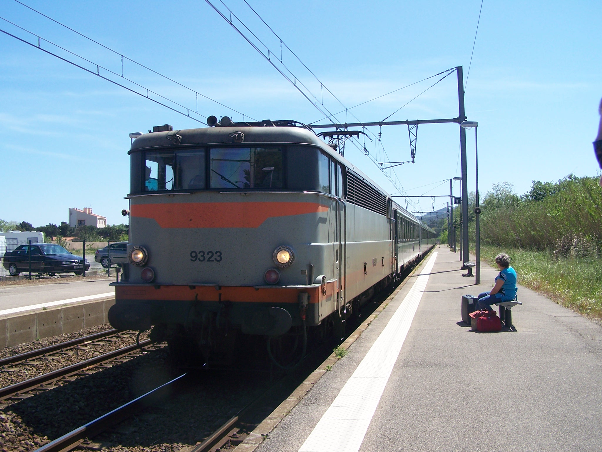 French regional train coming from Cerbère at the Spanish border, and bound for Nîmes, is entering the city of Argelès-sur-Mer train station, in Pyrénées-Orientales.